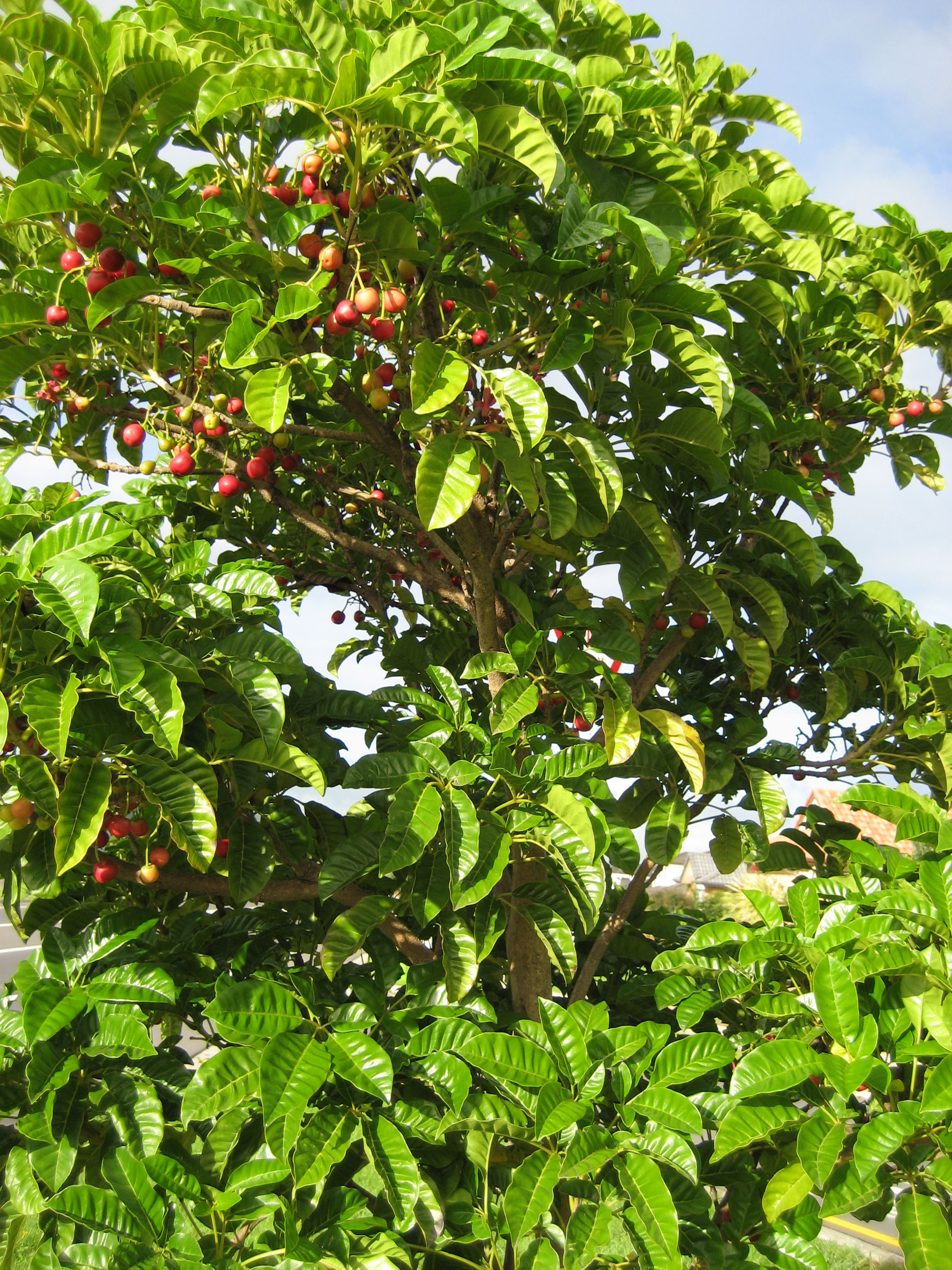 Vitex lucens, Pūriri. A young tree with fruit, Auckland, New Zealand.